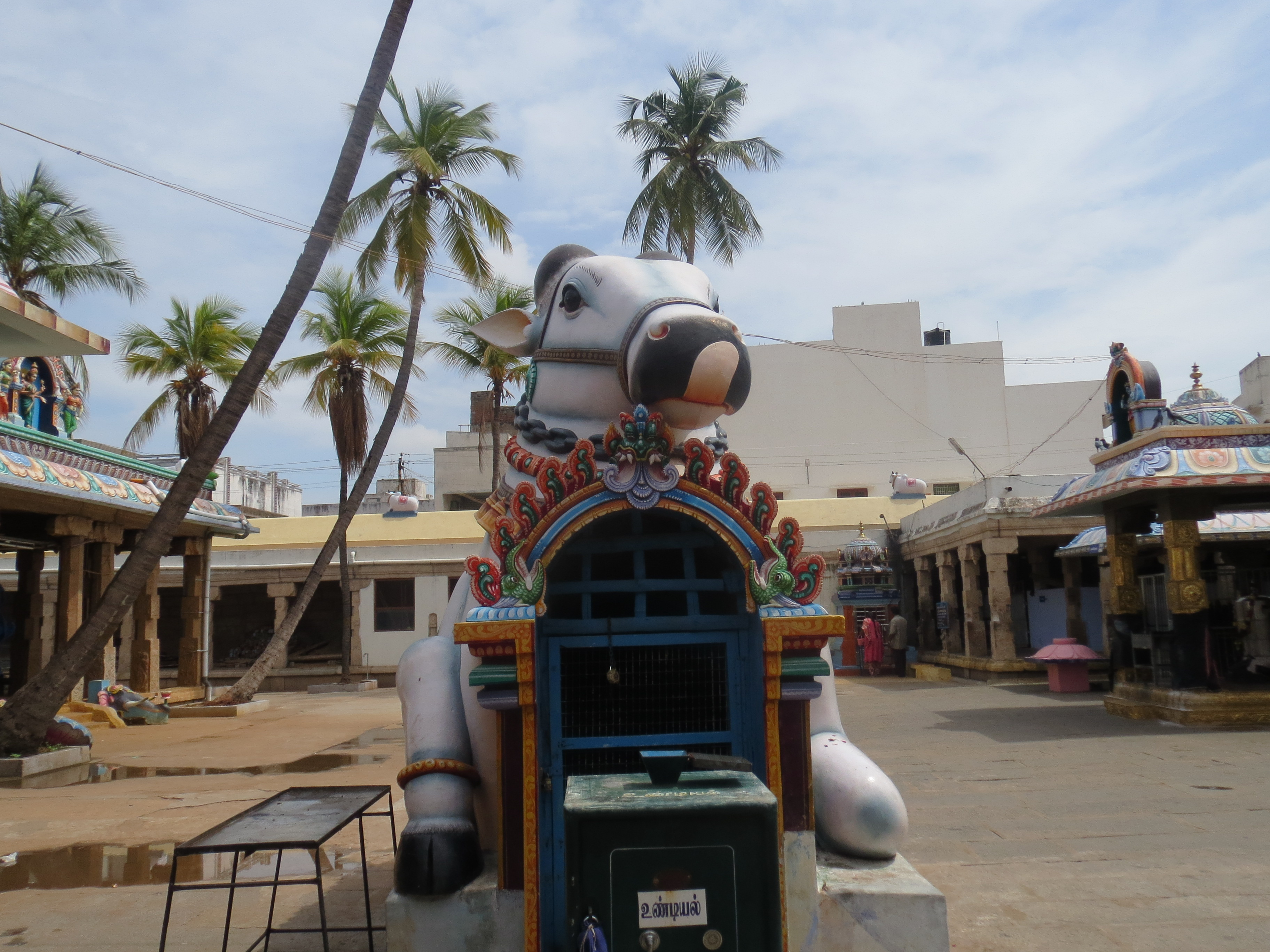 Thiruchengodu Kailasanathar Temple well entrance gate.